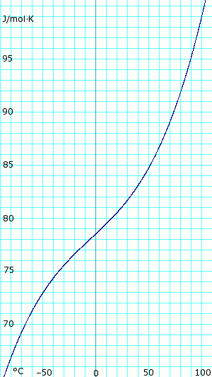 Subject: anhydrous liquid ammonia heat capacity as a function of temperature.